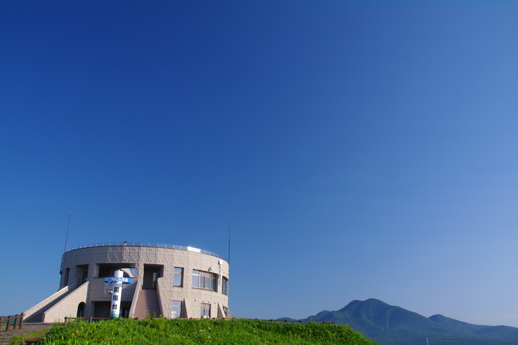 Nakashibetu town Kiyodai, Hokkaido.